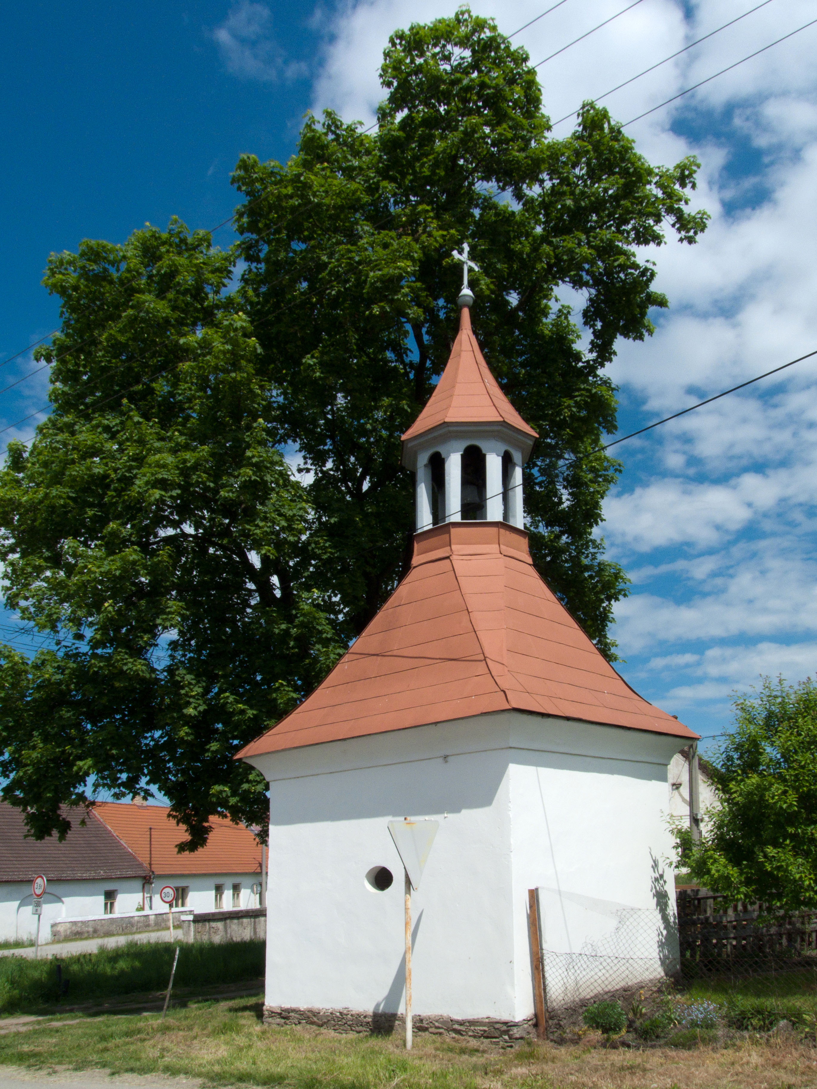 Chapel in the village of Roudná, Tábor District, Czech Republic.